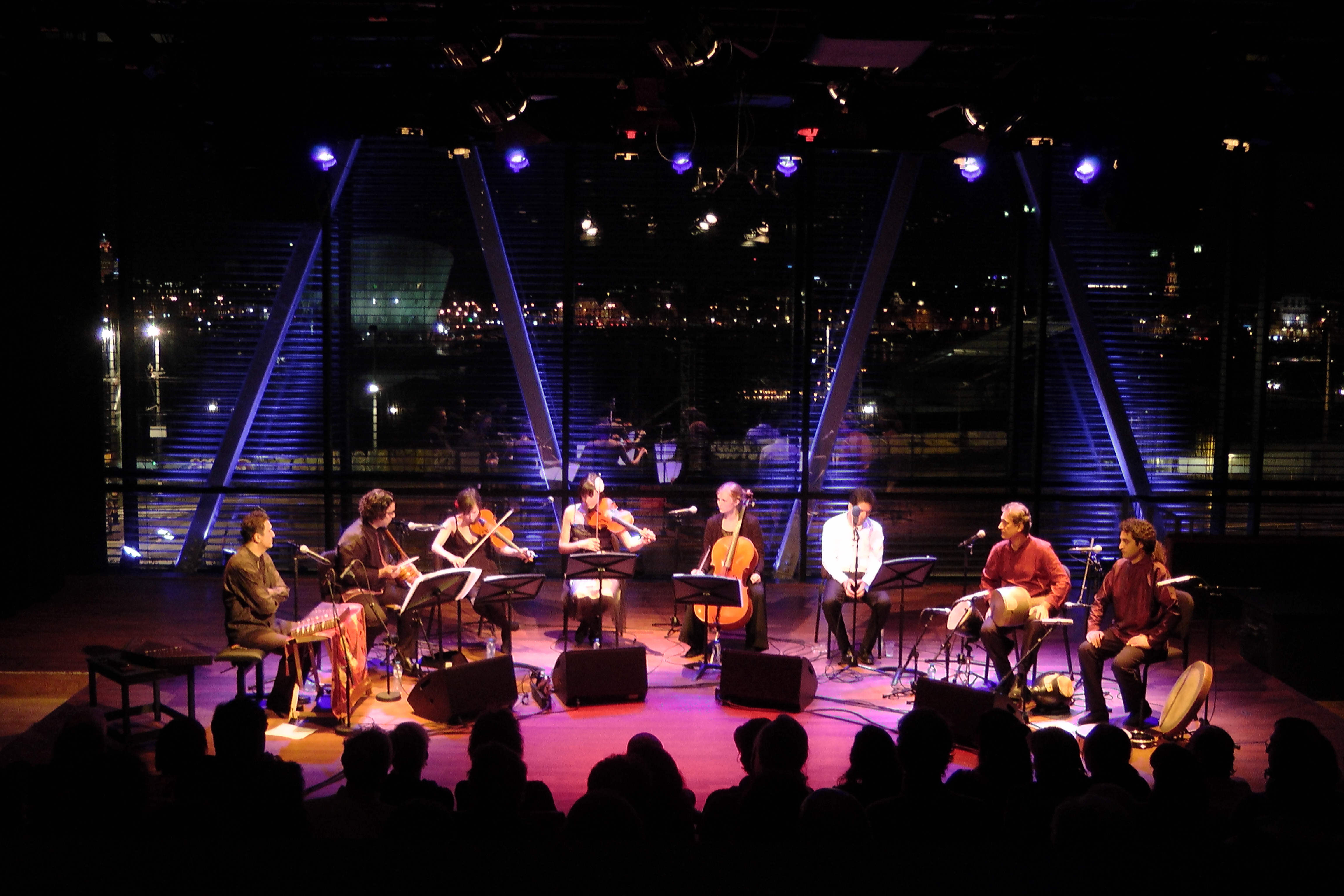 Photo by Pejman Akbarzadeh / Persian Dutch Network